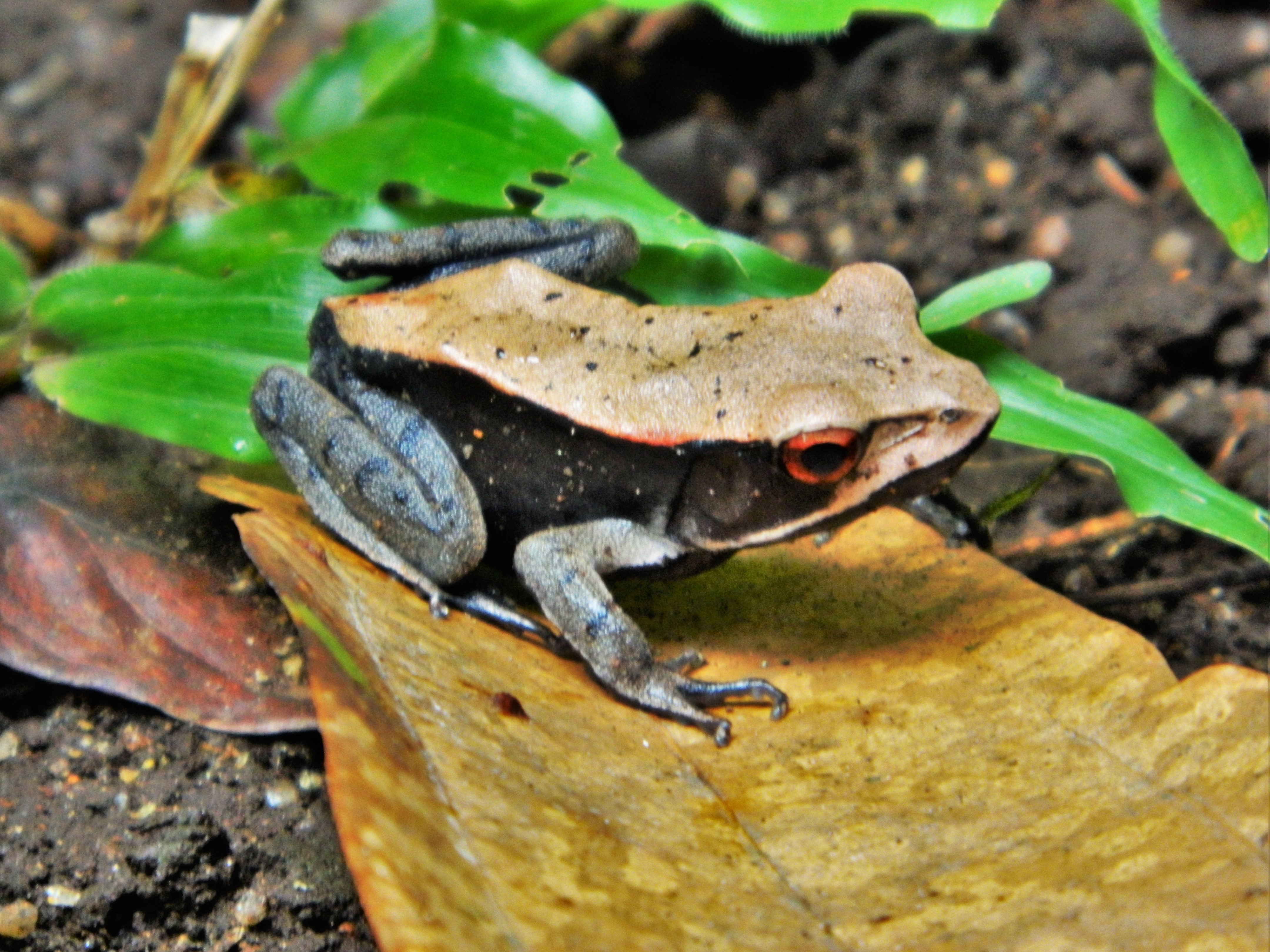 Bicolored Frog ( Clinotarsus curtipes ) also known as Malabar Frog at the Periyar National Park and Wildlife Sanctuary, Kerala, India.